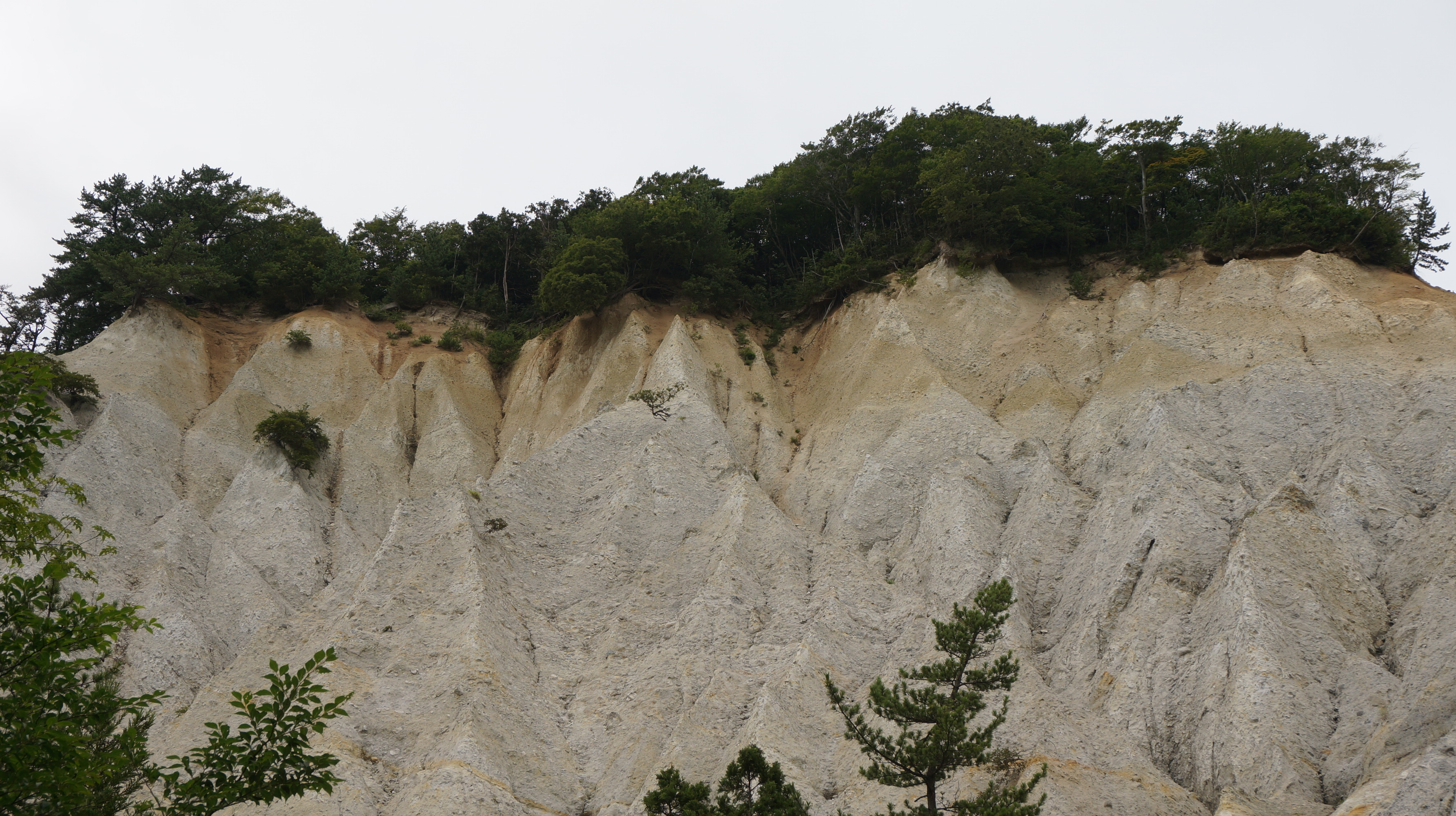 Nihon Canyon (Japan Canyon), Aomori, Japan